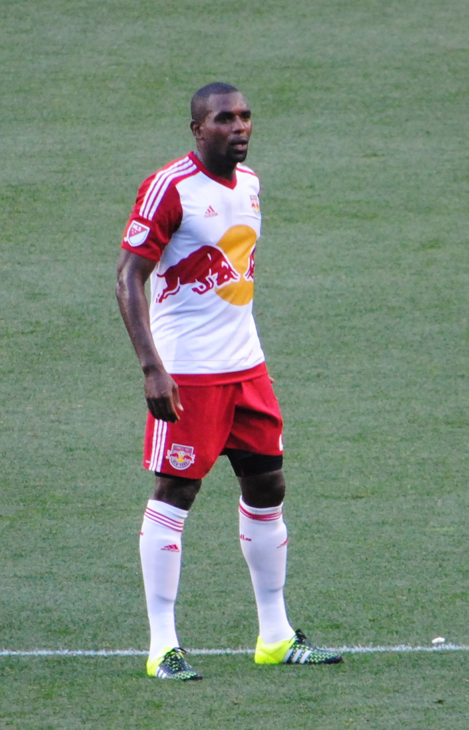 Ronald Zubar RBNY